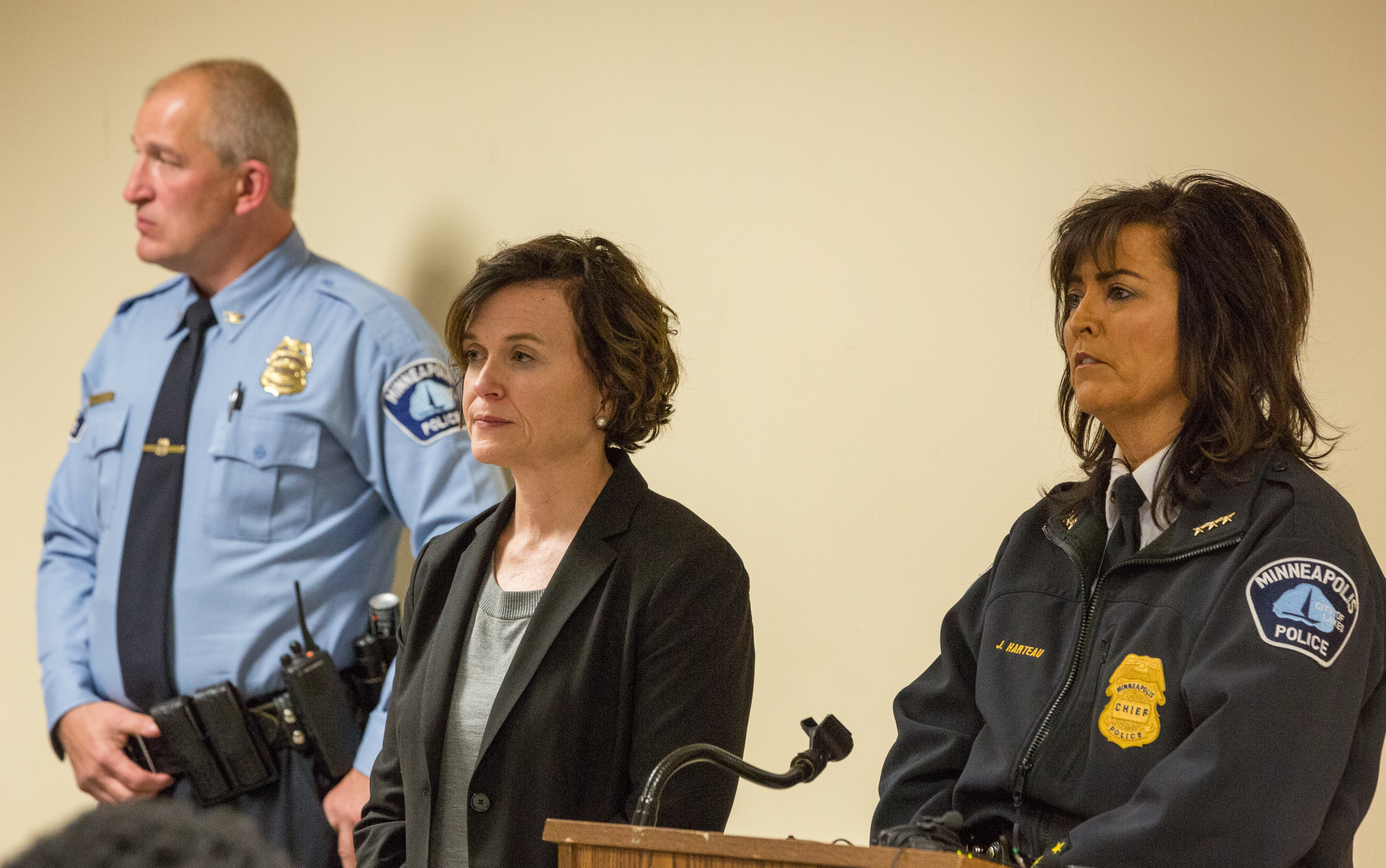 Minneapolis Mayor Betsy Hodges and Police Chief Janeé Harteau listen to community members and activists following the officer-involved shooting of Jamar Clark in North Minneapolis on November 15, 2015. Photo: Tony Webster Creative Commons: You can use this photo with attribution. All photos from November 15, 2015 community and police press conferences, protest, and community listening session.